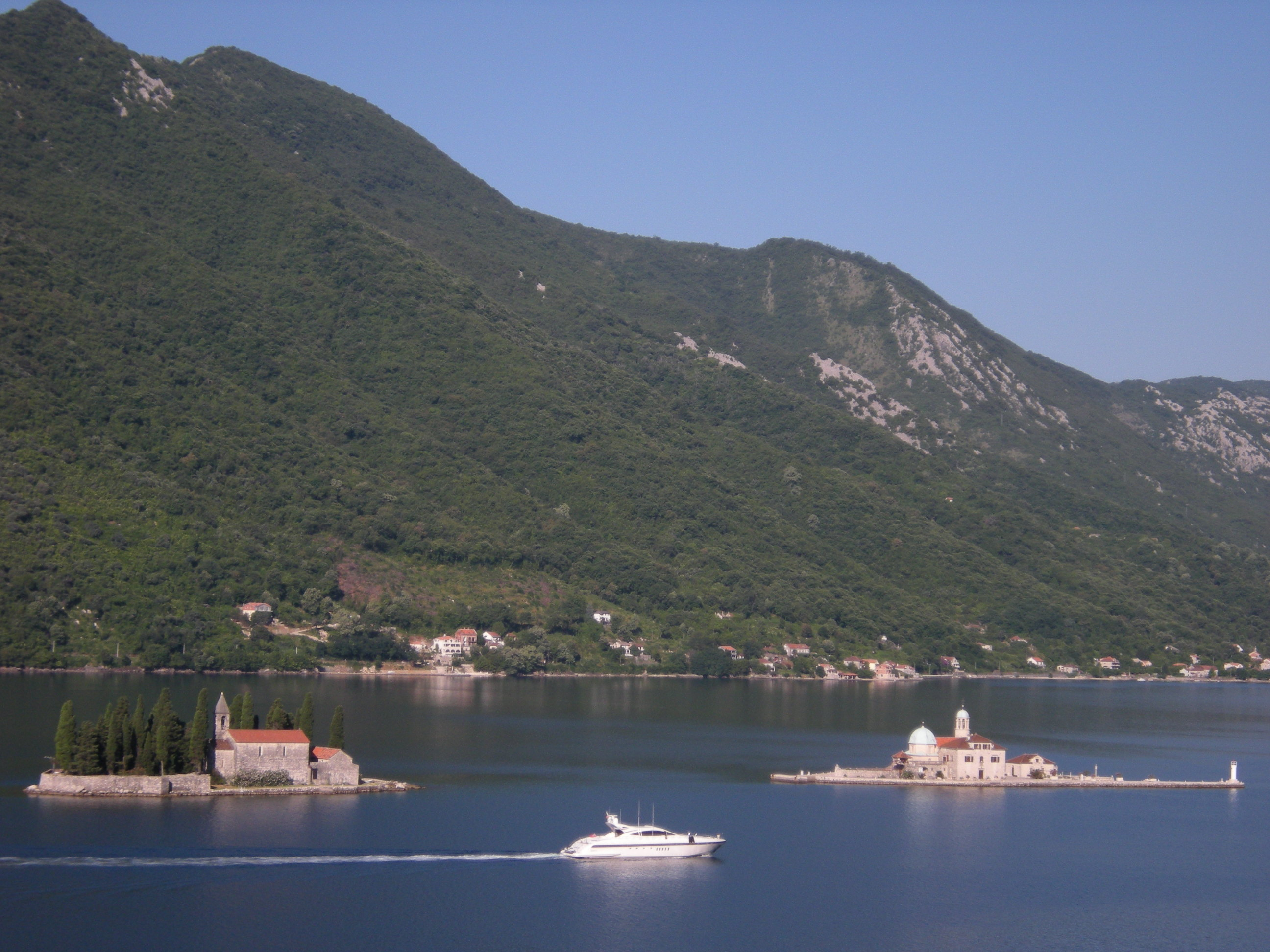 Perast Montenegro